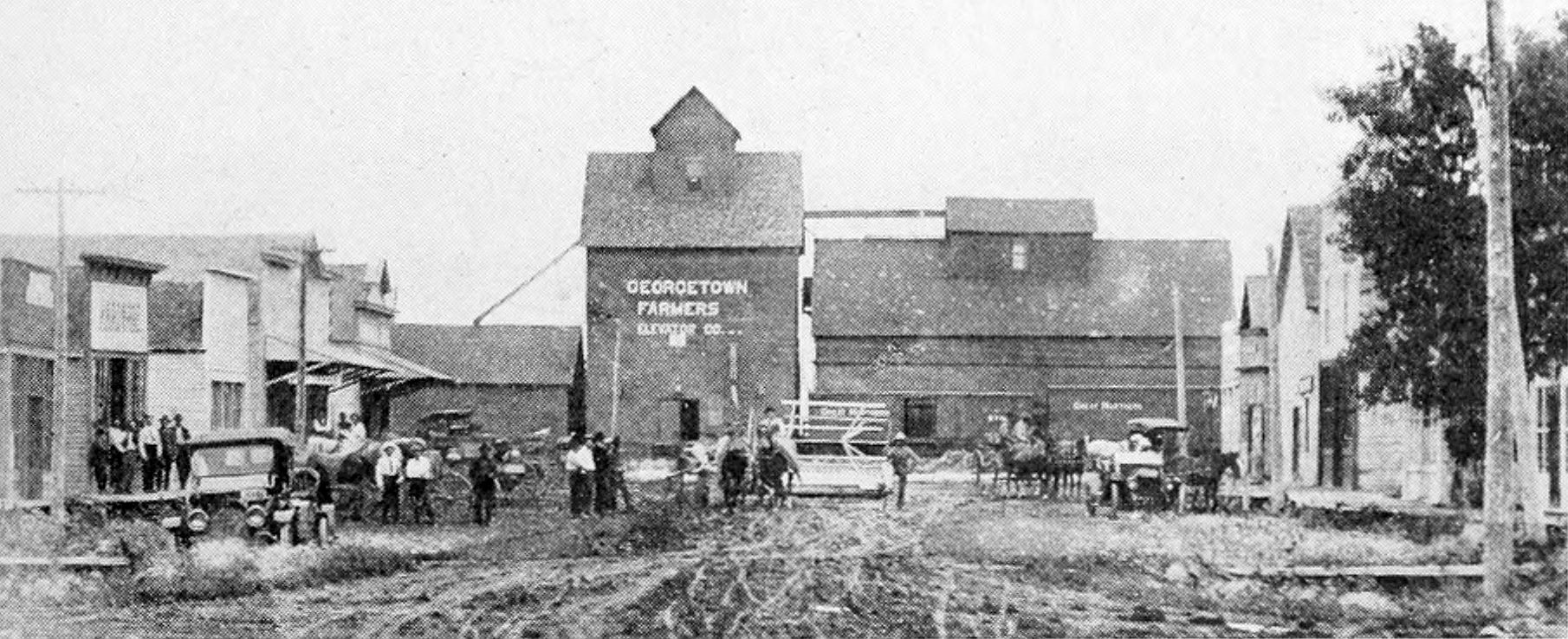 Title: Clay County Identifier: claycounty00meek Year: 1916 (1910s) Authors: Meeker, D. W. [from old catalog] Subjects: Agriculture Publisher: Moorhead, Minn. , D. W. Meeker Text Appearing Before Image: Near Georgetown, Owned by Martin E. L. Wilk returns of over five dollars each. All of the cattle are tested frequently and the herd is kept free from tubercu- losis. The horse sire is a grey Percheron of fine type. Several of the mares are full-blood, and there are several well set up grades. The Yorkshire bacon hog" of the Canfield strain have been raised successfully for several years. The grandmother of the head of the herd was an imported sow. "Wooded pastures are located along the banks of the Buffalo river, which winds diagonally through the farm. The buildings of the farmstead are conveniently located and supplied with many conveniences, including electric light, the current being gen- erated on the farm. Shipping facili- ties could not be better, as Douglas siding is located on the western border of the farm. Georgetown is distant only half a mile from the farm limit, and two and one-half miles from the farmstead. The distance to Moorhead is fourteen miles by the state road. Mr. Wilk is president of the George- town Farmers' Elevator Company and a director of the Moorhead National Bank. Alfred Olson is the owner of one of the big farms of the countyâ2,300 acres in Kragnes and Oakport town- ships. All of the land, except the tim- â â â ^:. Text Appearing After Image: GeorgetownâFarmers' Elevator in Backgroi